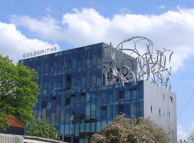 The Ben Pimlott Building, Goldsmiths College This modern building opened in January 2005. Ben Pimlott was Warden of Goldsmiths from 1998 until 2004.